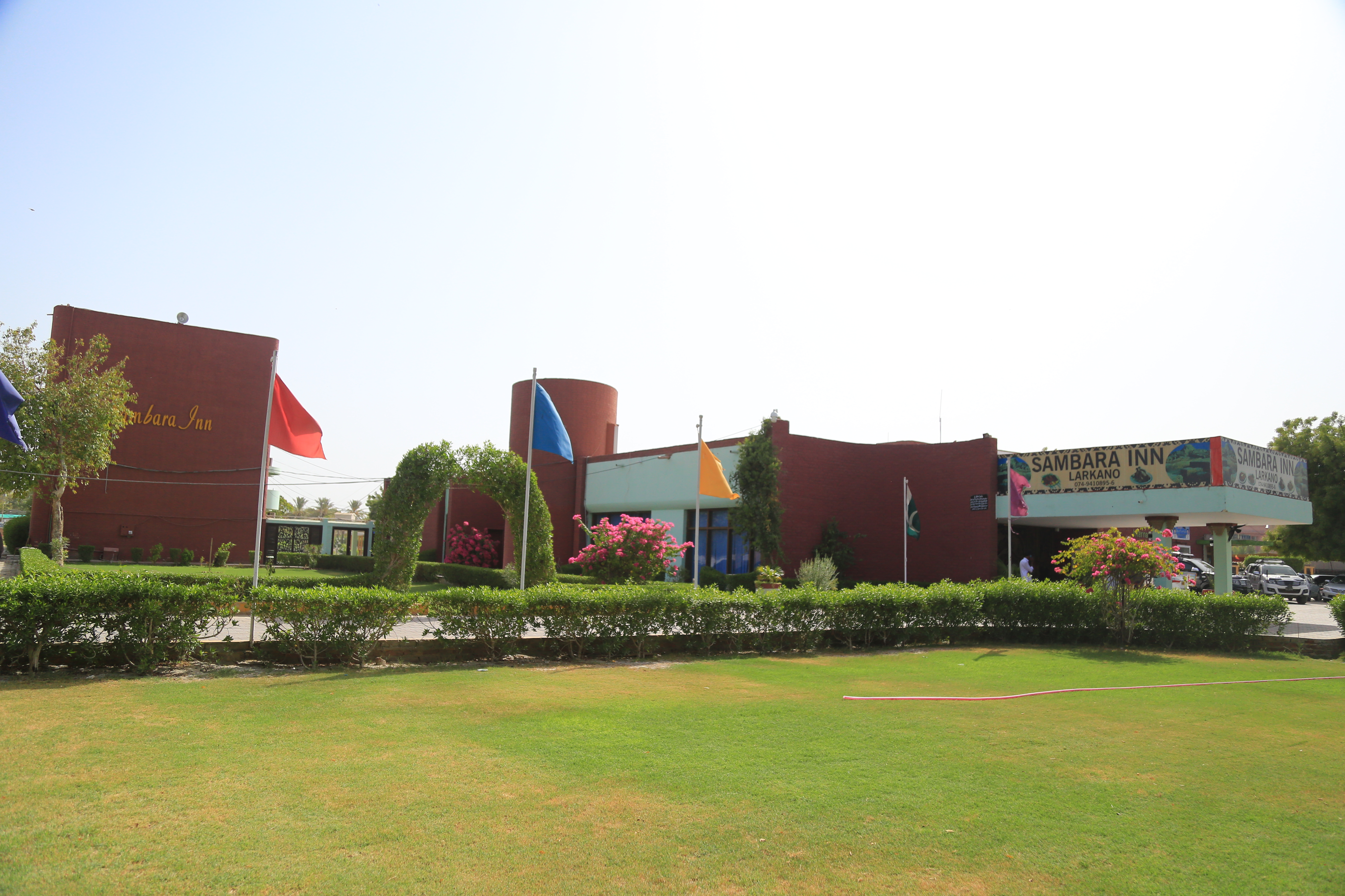 This is exterior view of Sambara Inn Hotel Larkana, operated by Sindh Tourism Development Corporation